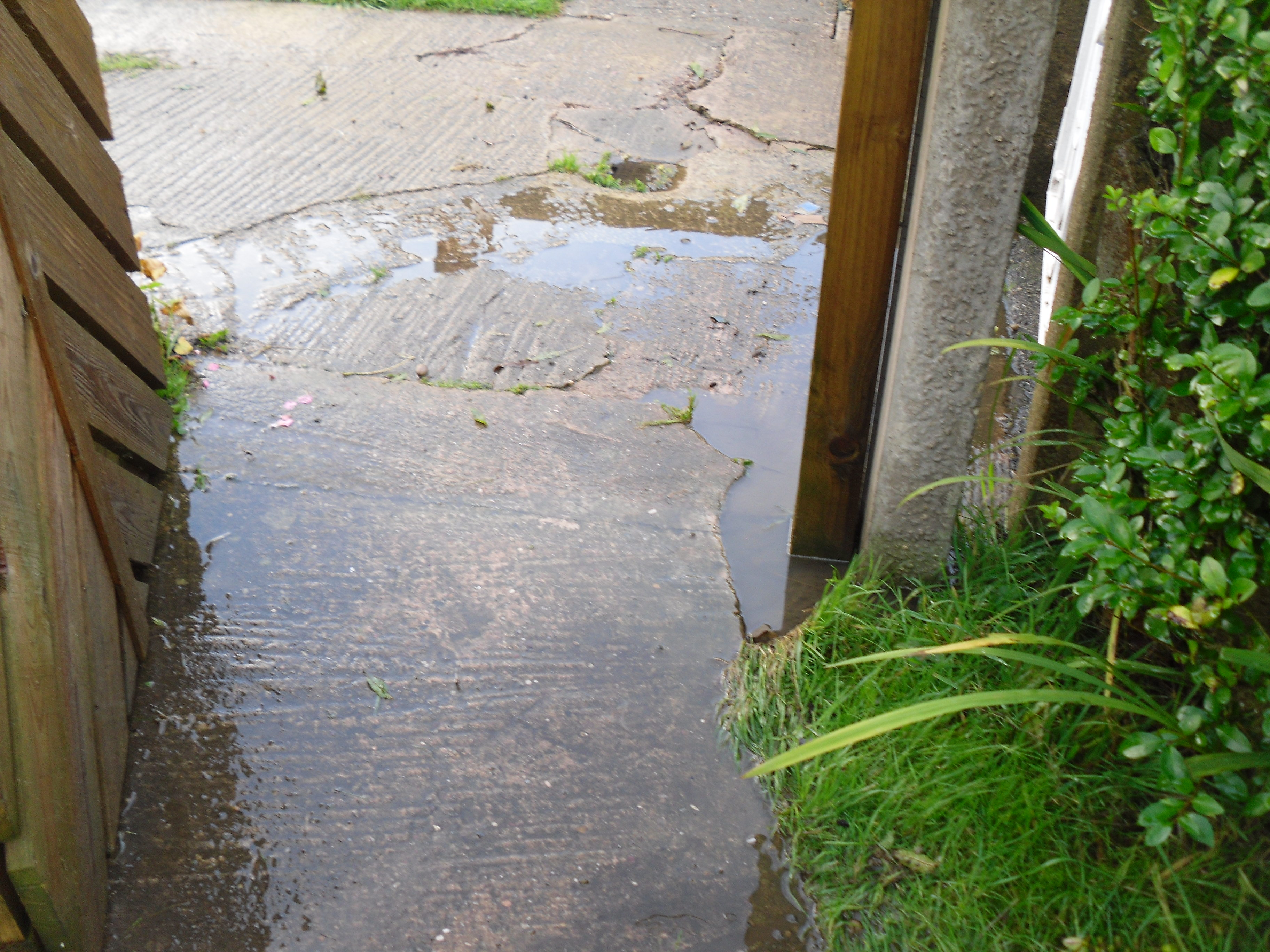 Puddles after a thunderstorm in Sheffield; 2010